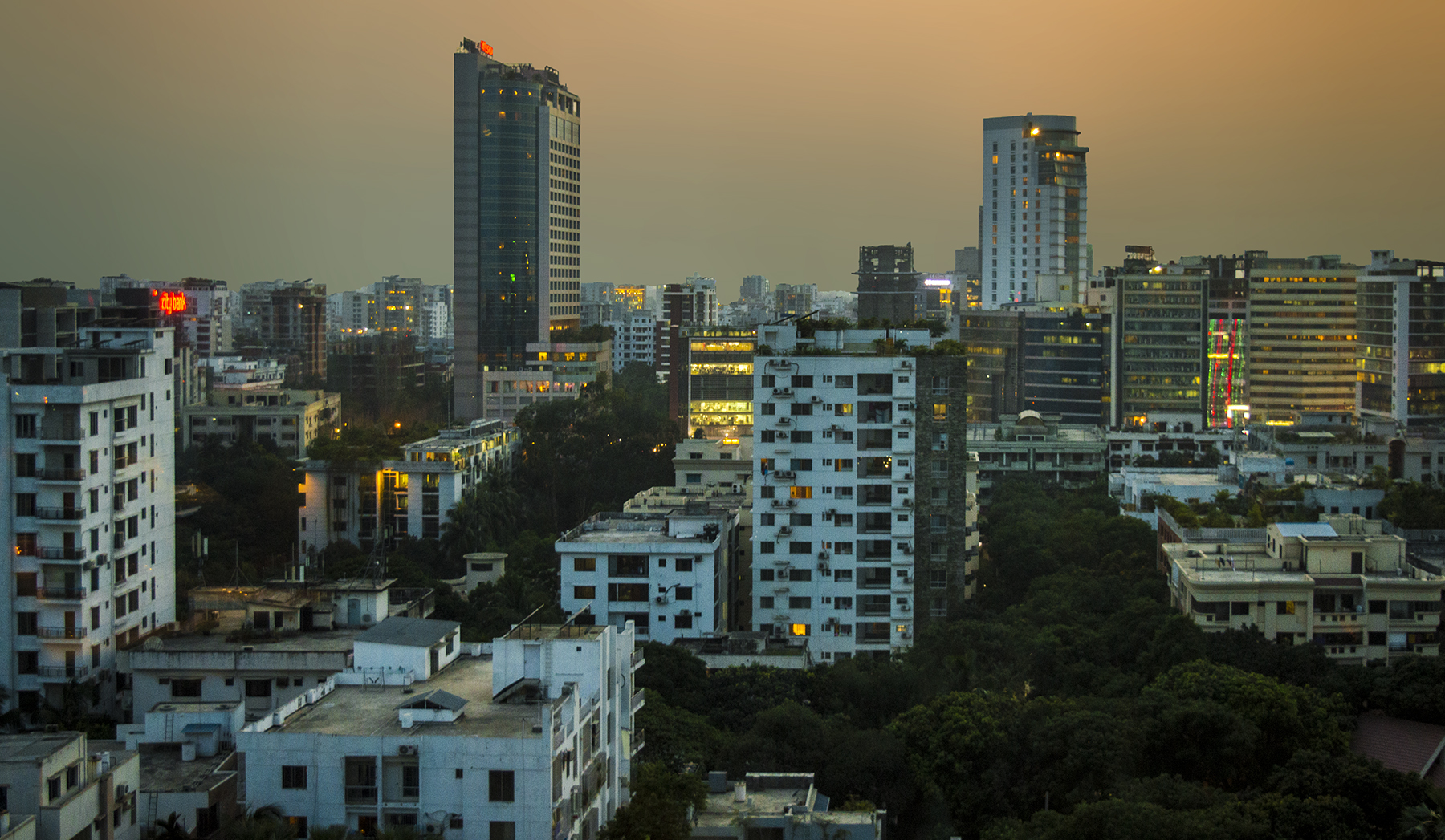 View of Gulshan-2 from Six Seasons Hotel. Originally uploaded on my Flickr